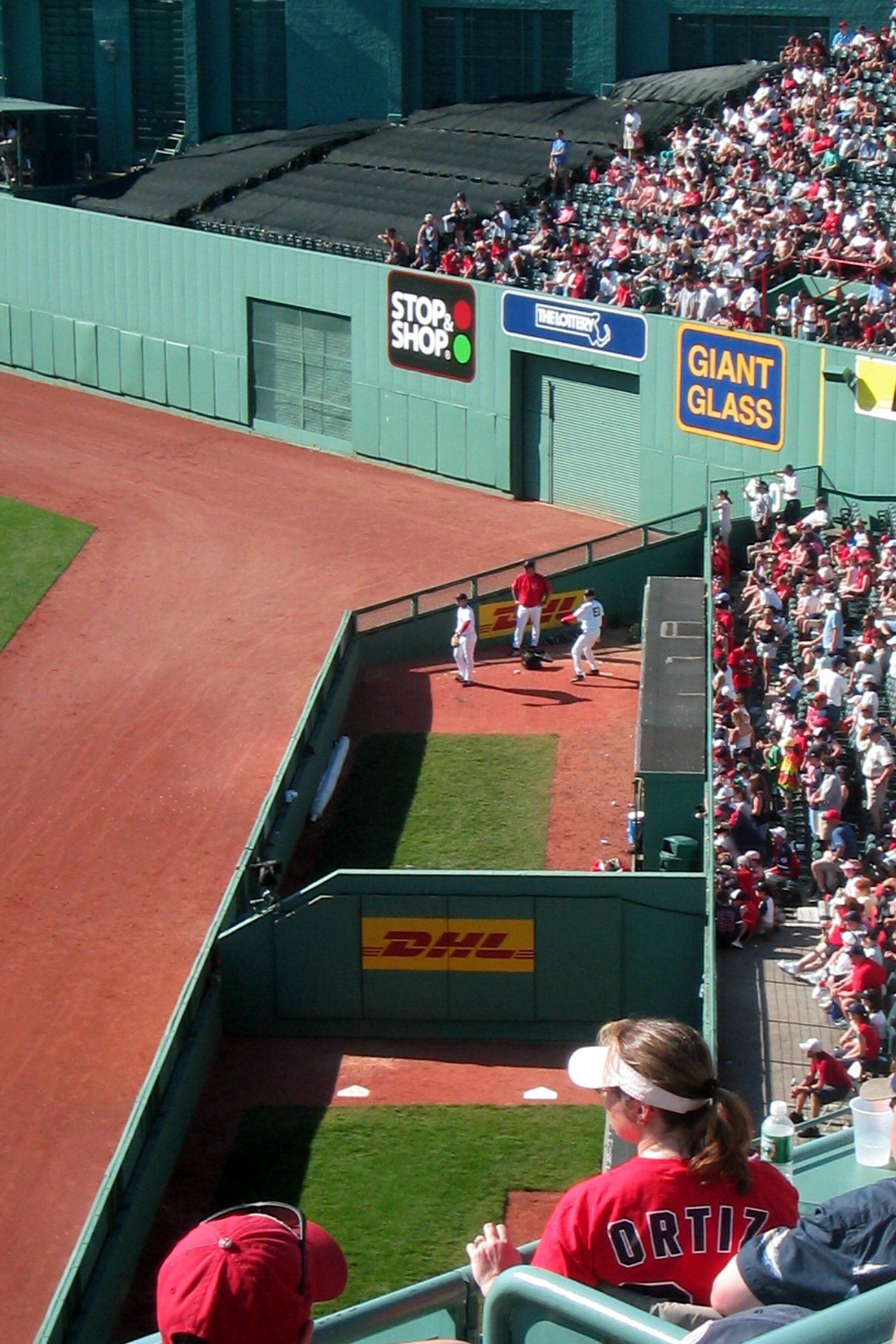 Fenway Park